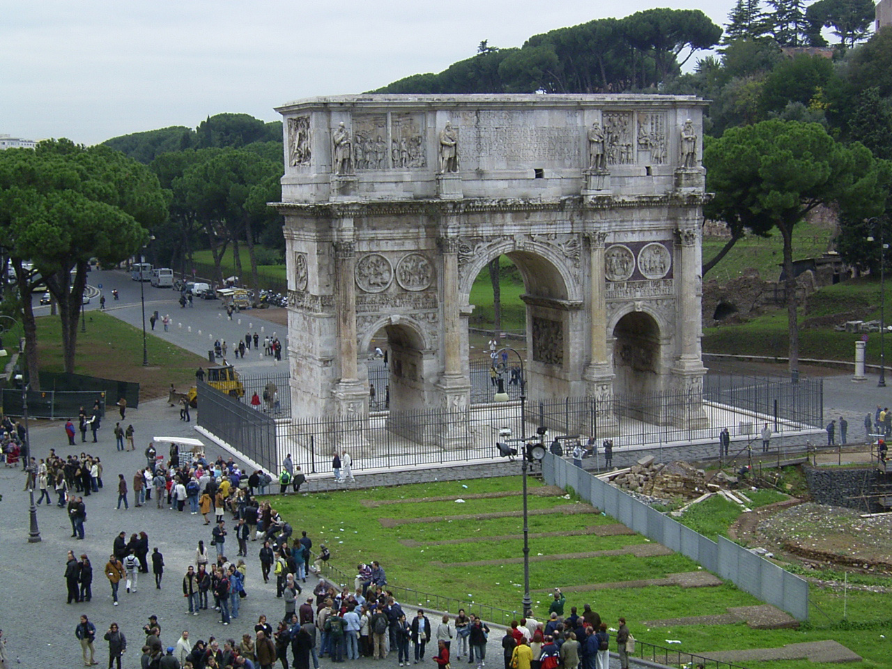 Arco di Costantino in Rome